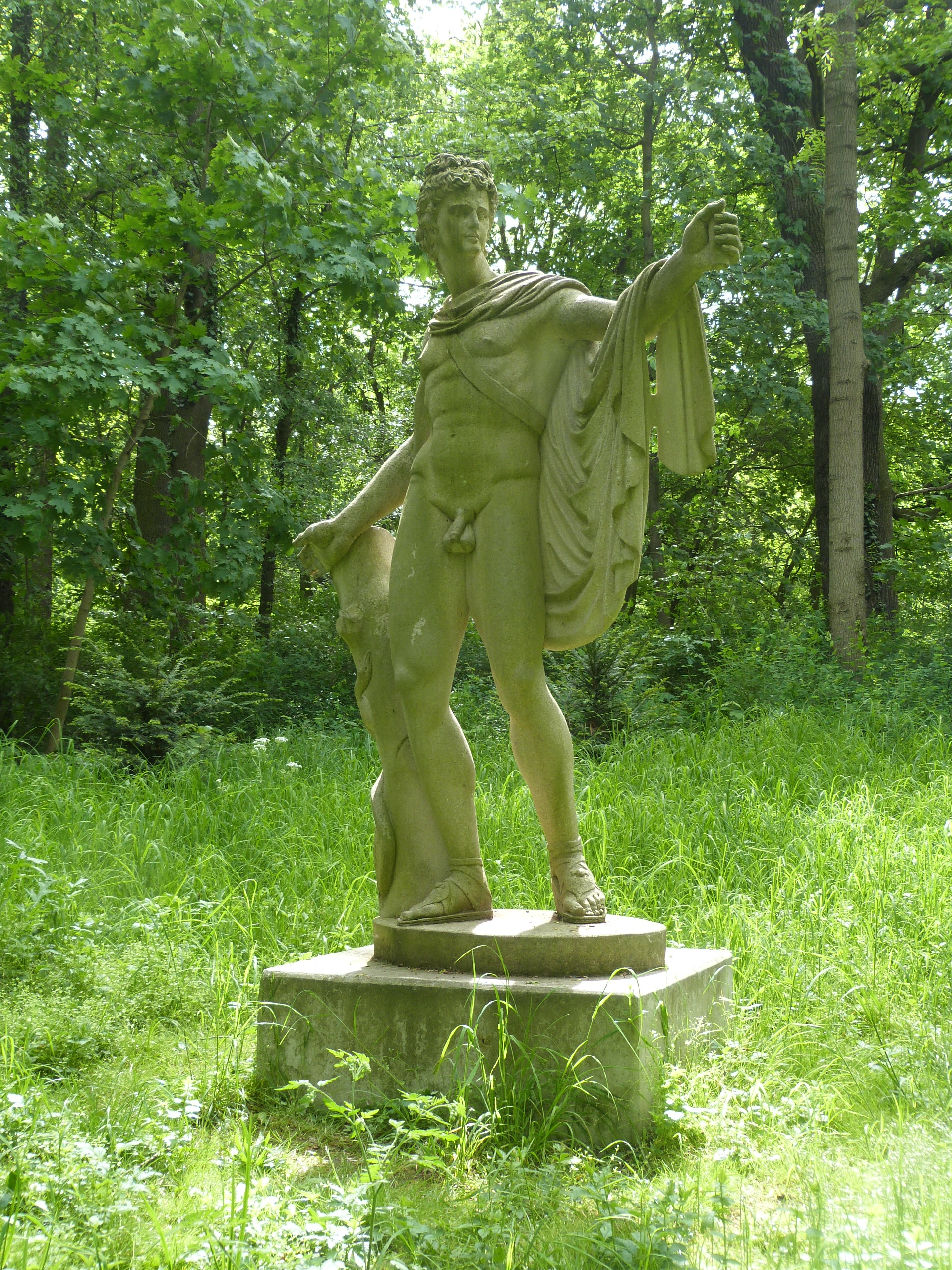 Apollo Belvedere replica in the gardens of Dieskau Castle (Kabelsketal, district of Saalekreis, Saxony-Anhalt)